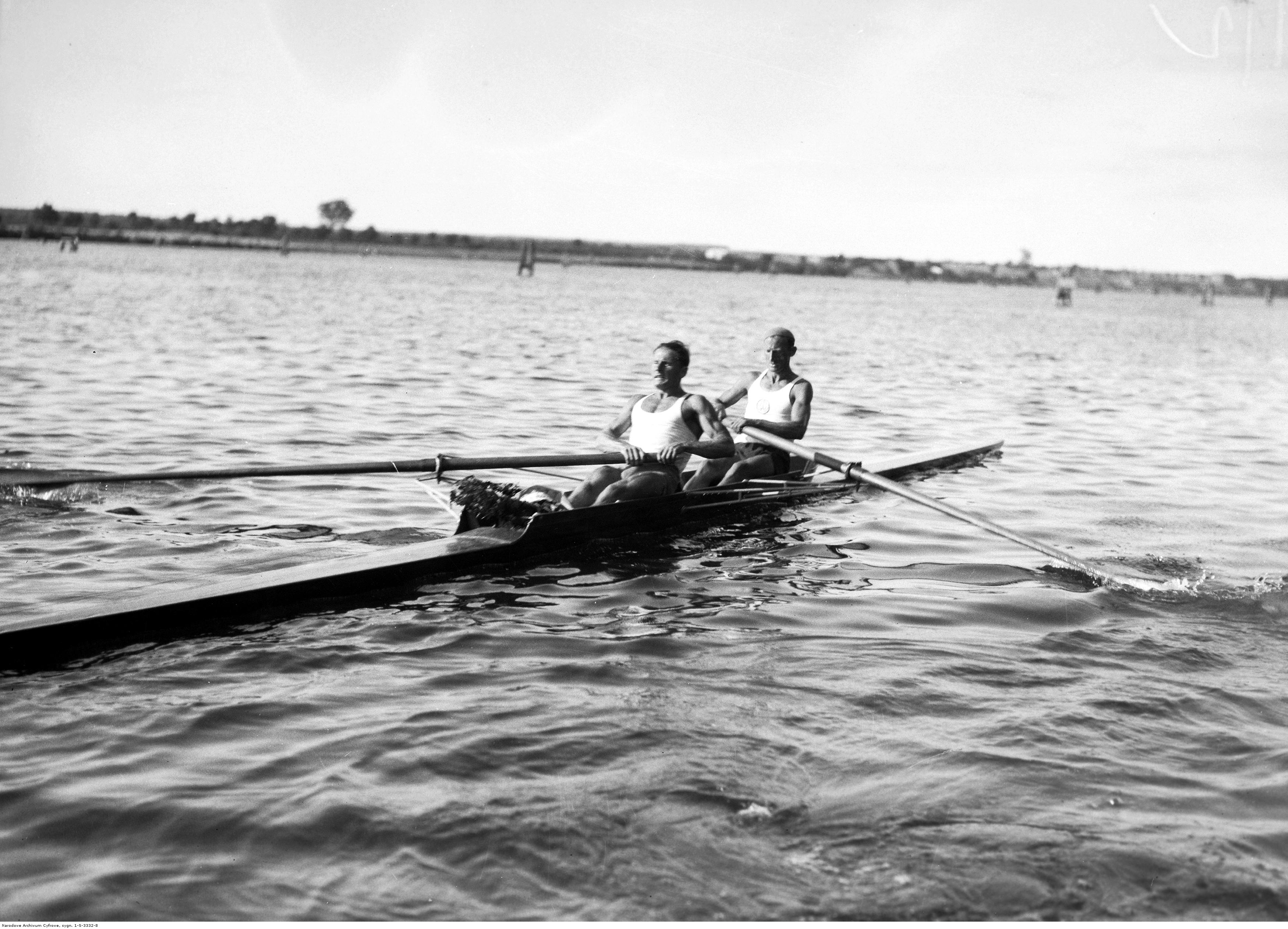 Rowing championship of Poland in Brdyujście (a suburb of Bydgoszcz). Winners of the men's race without male helmsman: Henryk Grabowski and Wiktor Szelągowski from the Włocławek Rowing Society.